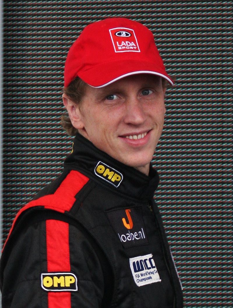 World Touring Car Championship 2009 Race of Japan: Jaap van Lagen (Lada Sport)